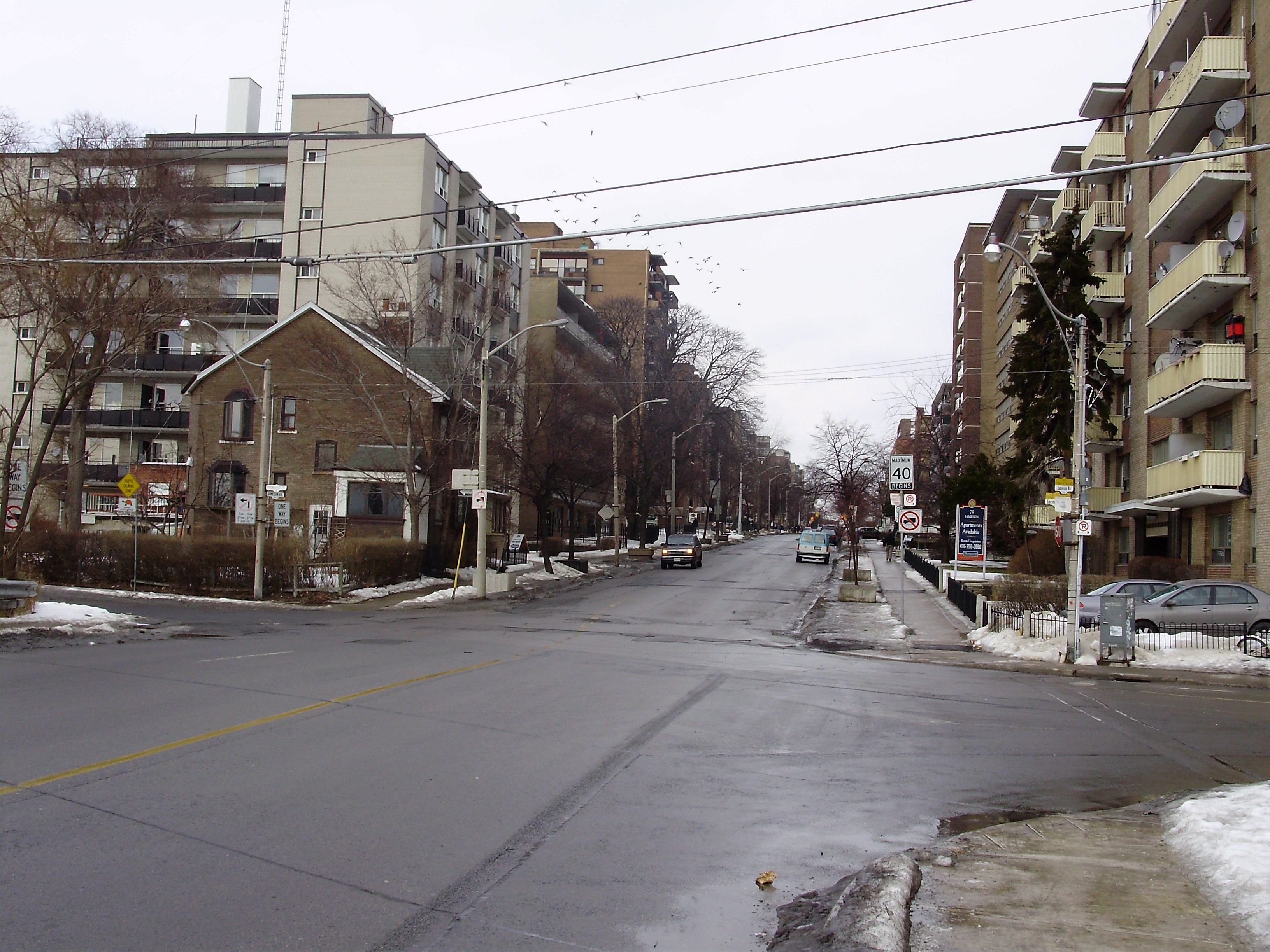 A view north along Jameson Avenue from just south of Springhurst Avenue in Parkdale, a neighbourhood in Toronto, Ontario, Canada.